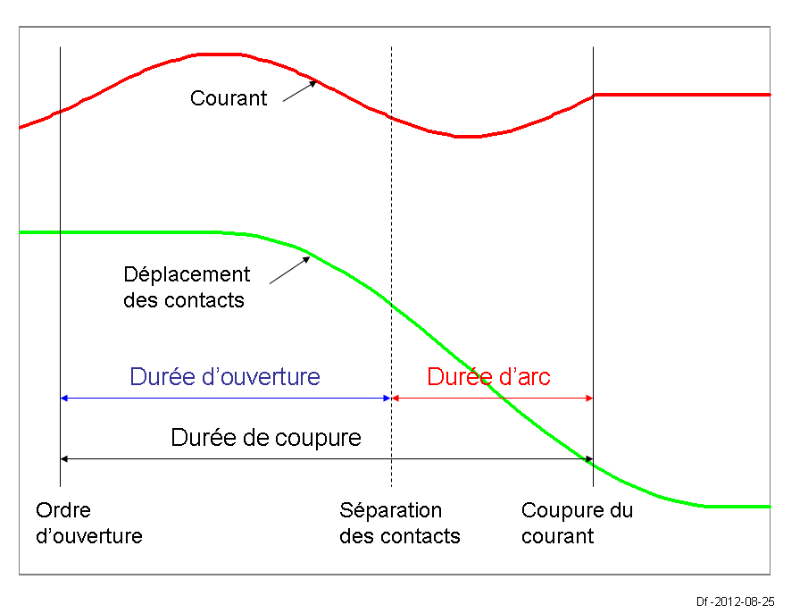 Definition of opening time, arcing arcing for HV circuit breaker